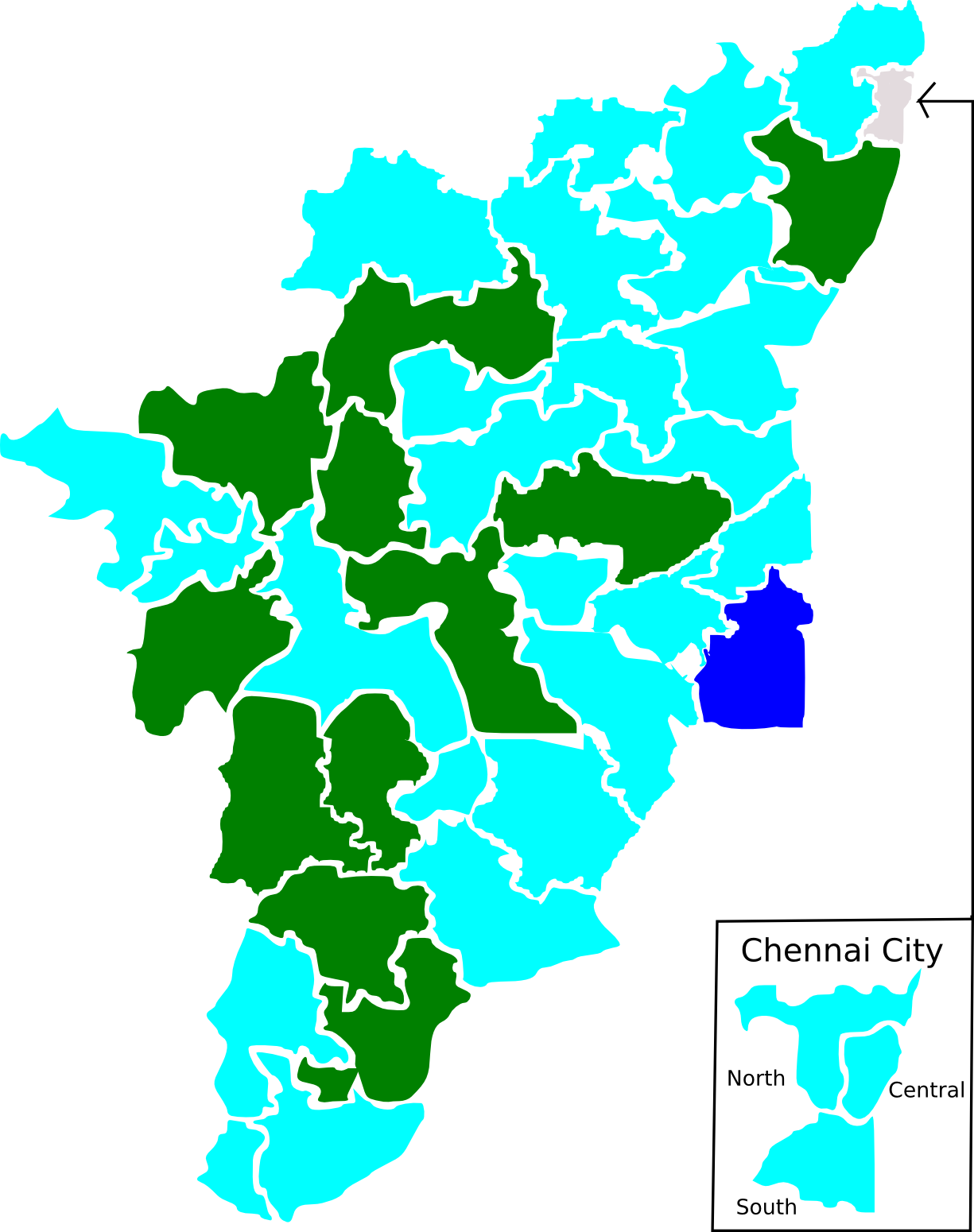 1989 Lok Sabha Election map for Tamil Nadu. Map is based on ECI drawn map. Results are based on ECI website.